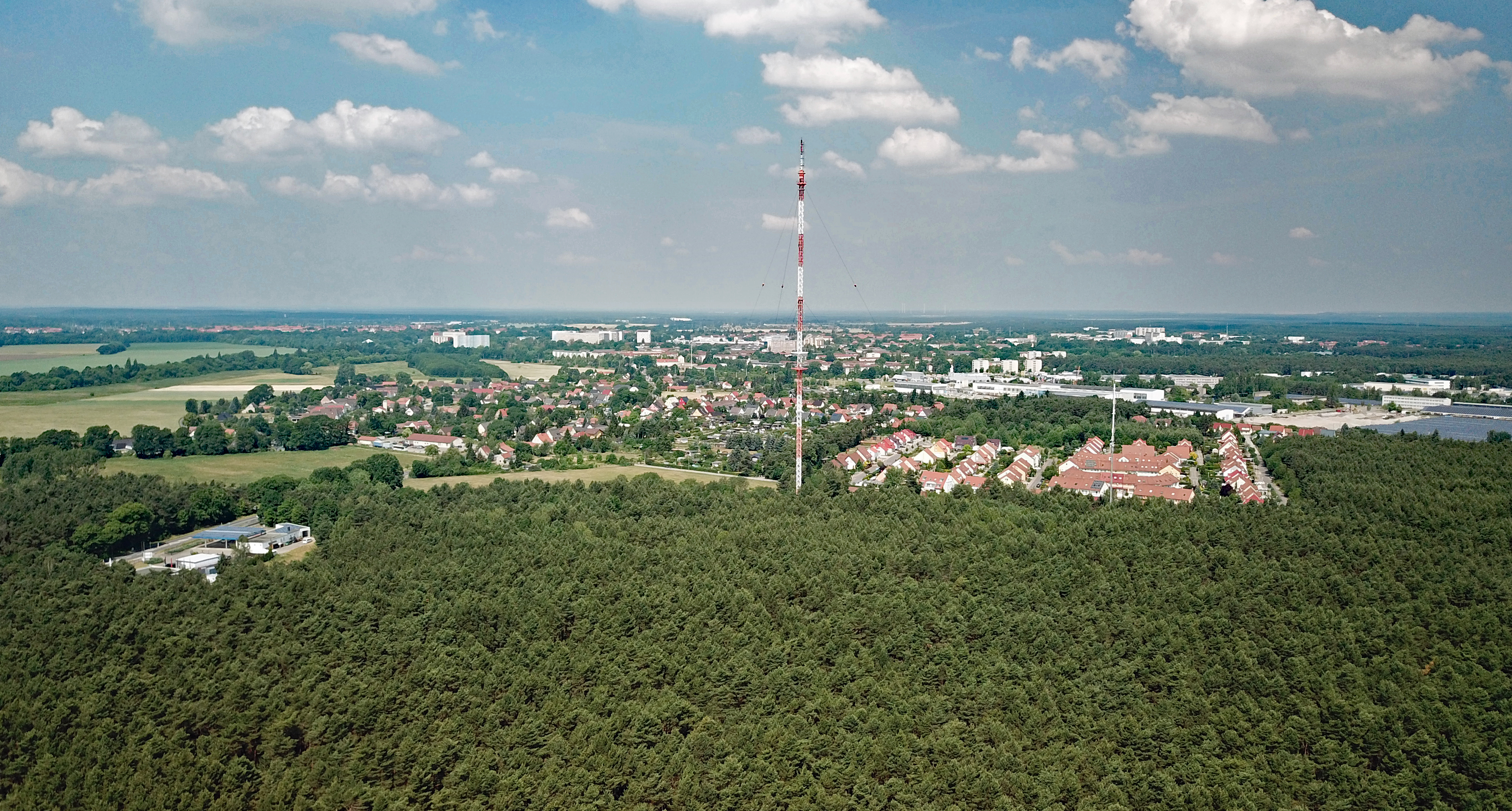 Zeißig (Hoyerswerda, Saxony, Germany) Hornjoserbsce: Powětrowy wobraz Ćiska